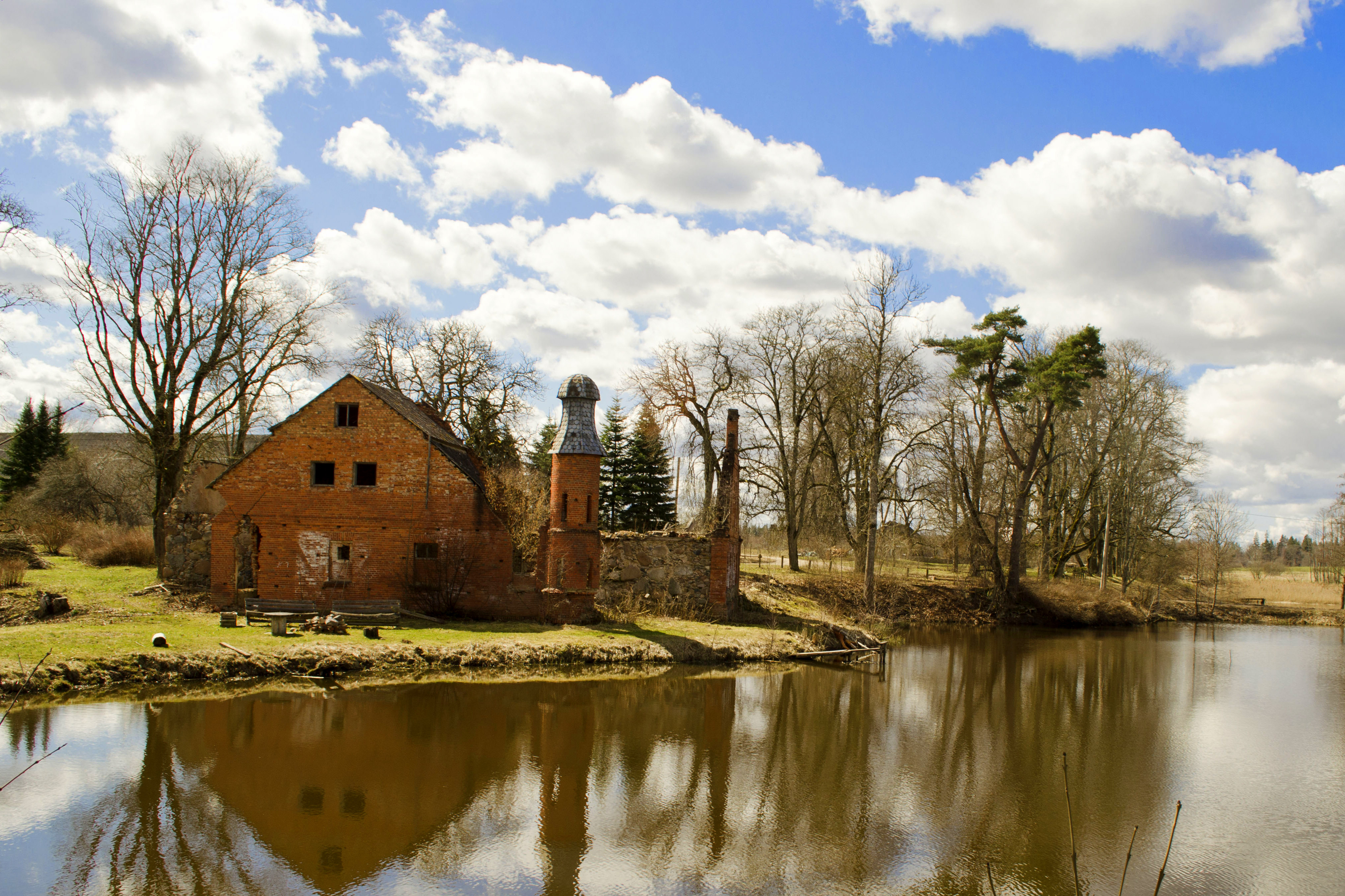 Abandoned mill in Kurmale